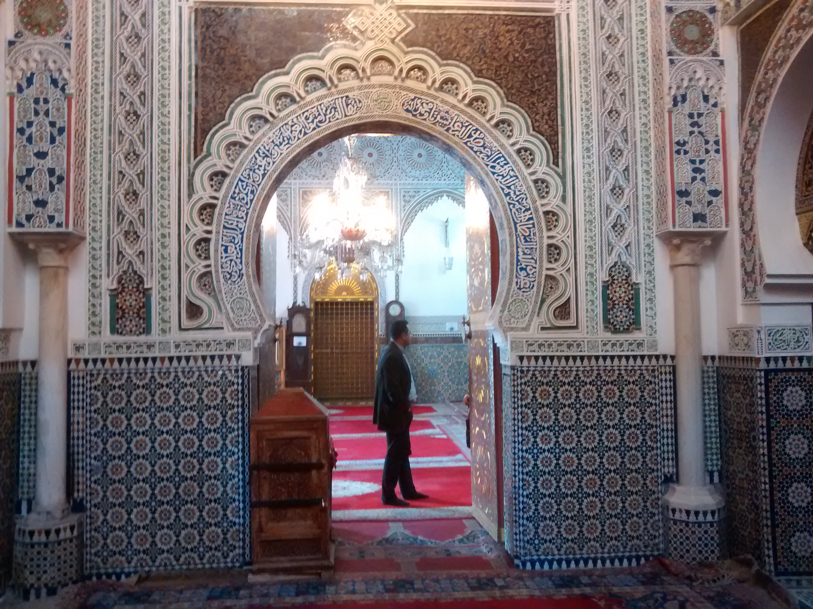 Zaouia Moulay Idriss II in Fez, Morocco.